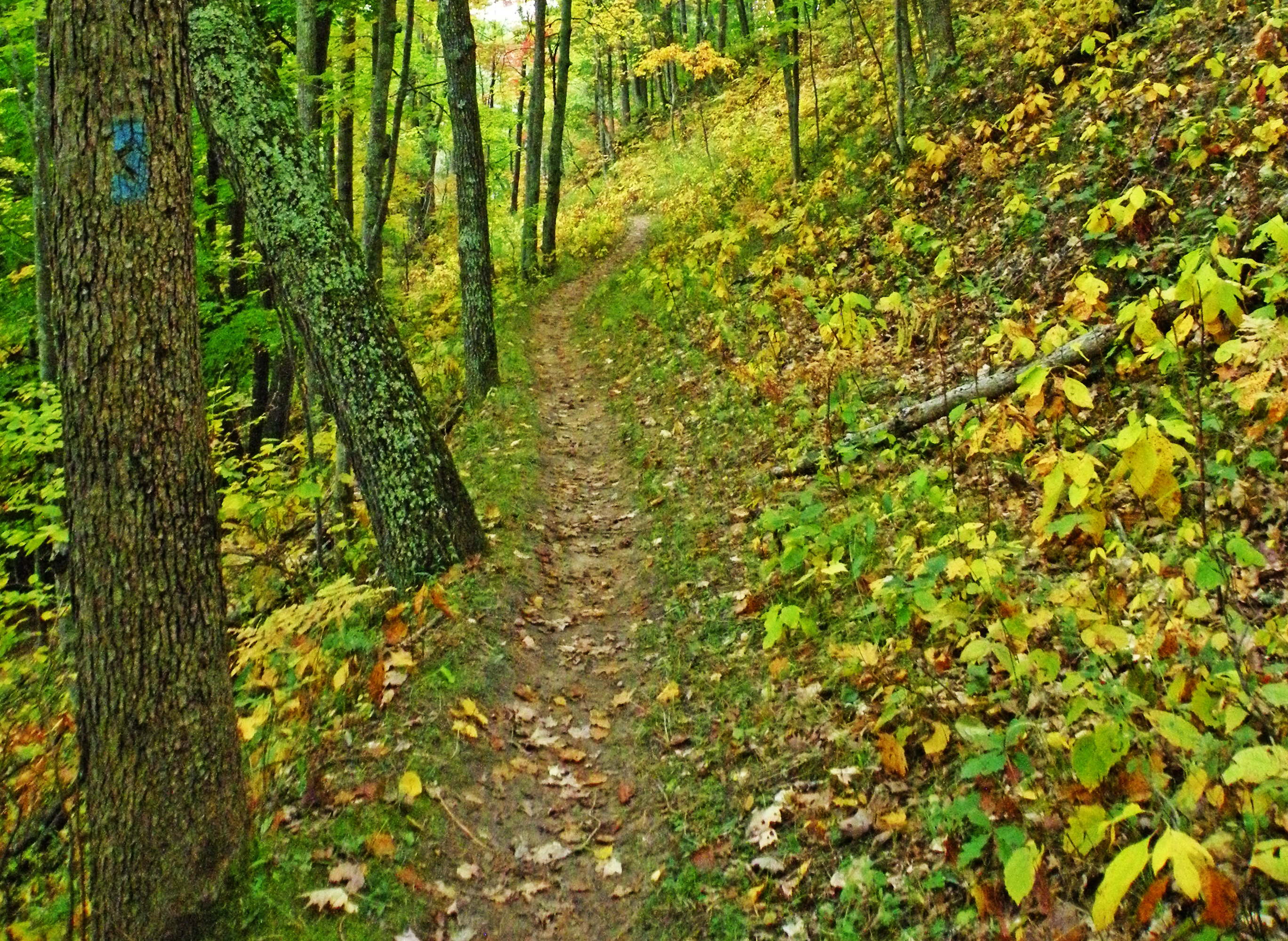 North Country Trail Path